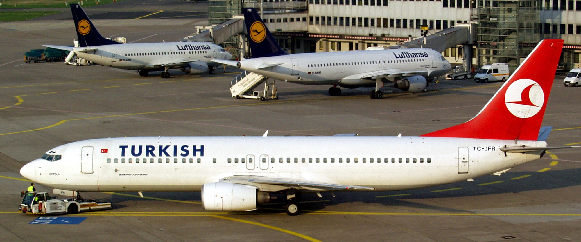 Boeing 737-800 (TC-JFR) of Turkish Airlines at Düsseldorf airport